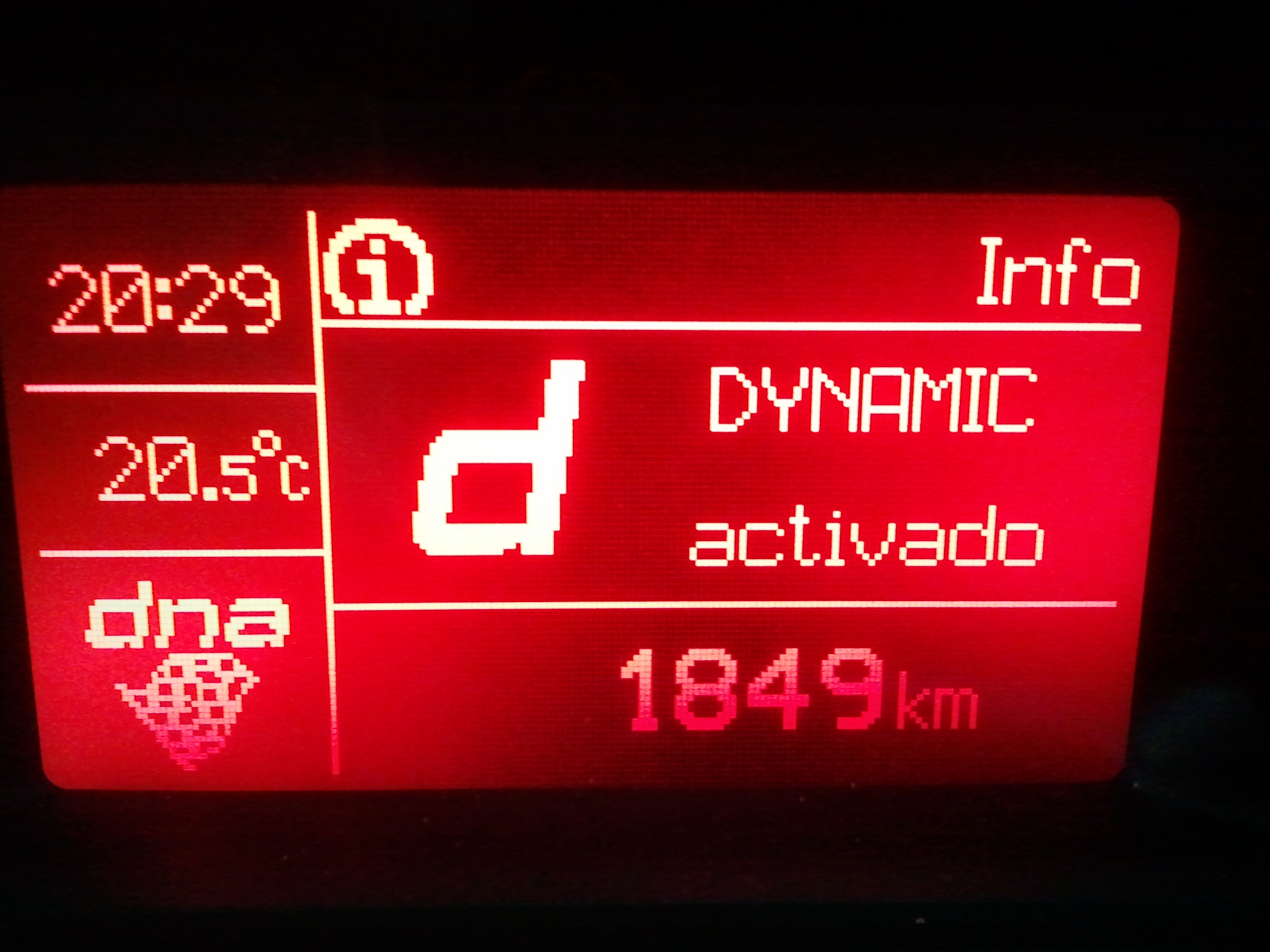 Alfa DNA driver display